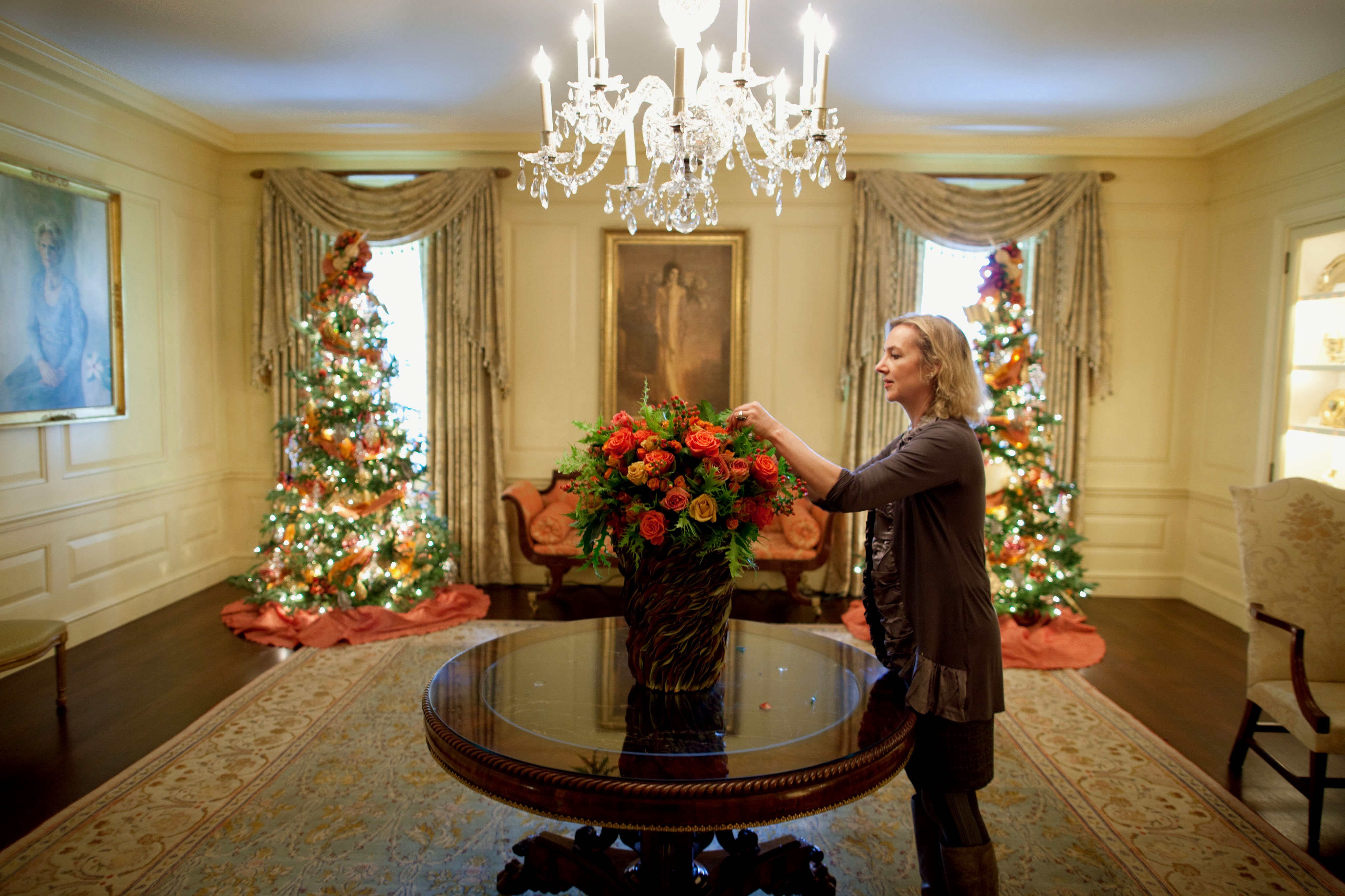 White House Chief Floral Designer Laura Dowling arranges a bouquet in the Vermeil Room of the White House, Dec. 1, 2010. Simple Gifts is the theme for this year’s holiday decorations. (Official White House Photo by Chuck Kennedy)This official White House photograph is being made available only for publication by news organizations and/or for personal use printing by the subject(s) of the photograph. The photograph may not be manipulated in any way and may not be used in commercial or political materials, advertisements, emails, products, promotions that in any way suggests approval or endorsement of the President, the First Family, or the White House.